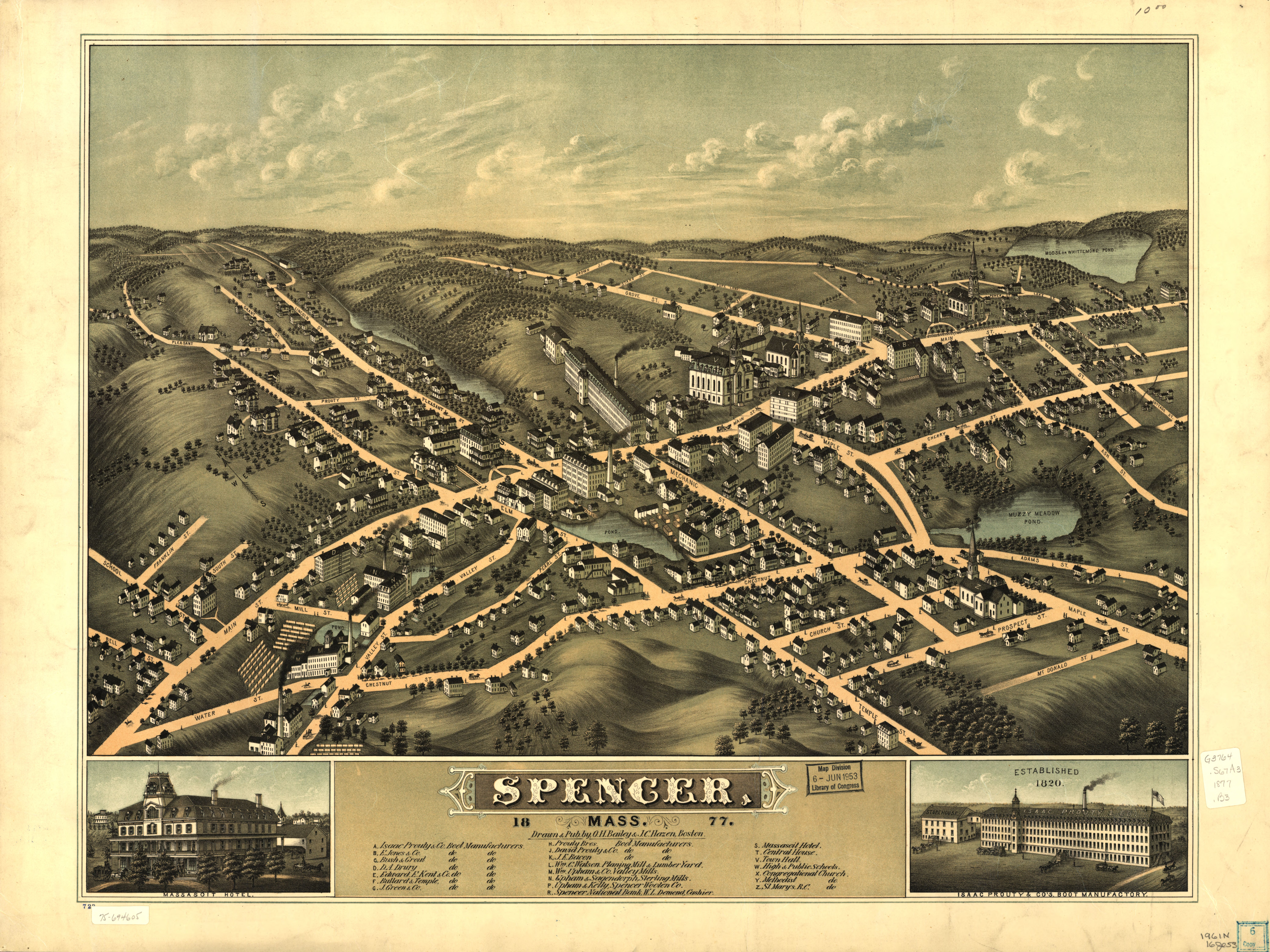 Perspective map not drawn to scale. Bird's-eye-view. LC Panoramic maps (2nd ed.), 324 Available also through the Library of Congress Web site as a raster image. Includes illus. and index to points of interest. AACR2